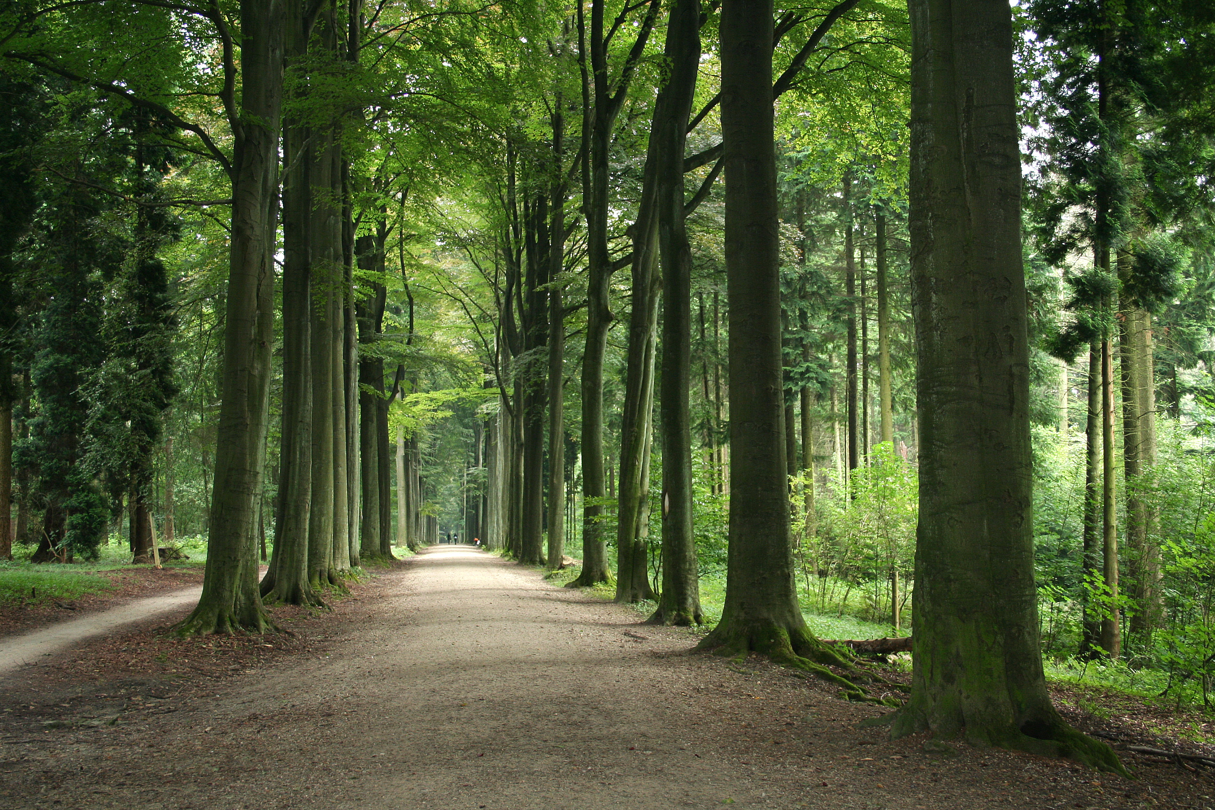 Tervuren Arboretum (Belgium), King Walk.